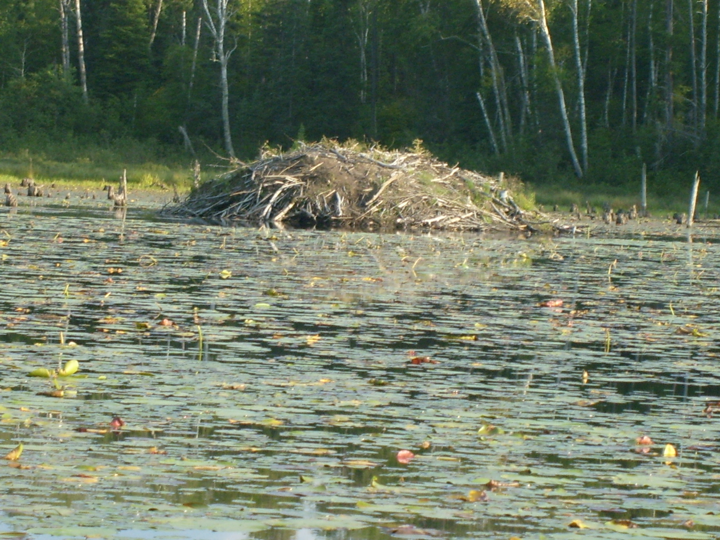 a beaver dam